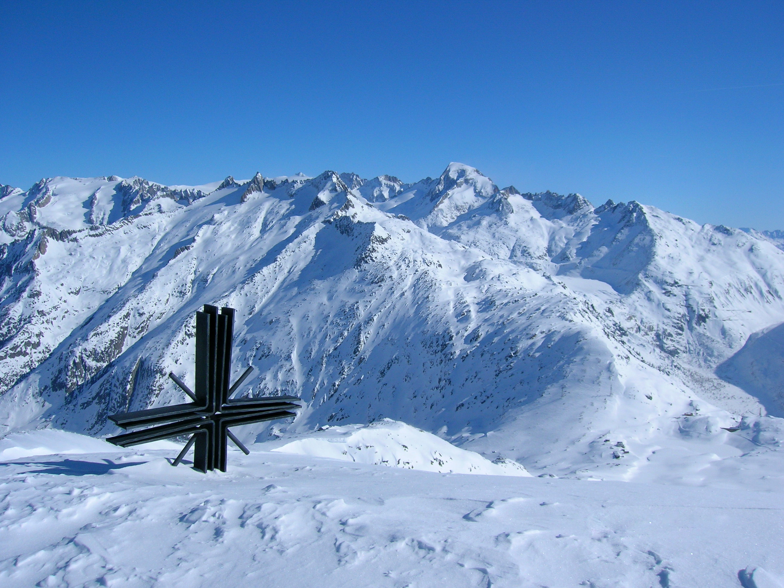 Tieralplistock 3383m, Garstenhorner 3189m, Dammastock 3630m, Galenstock 3586m from Sidelhorn 2764m